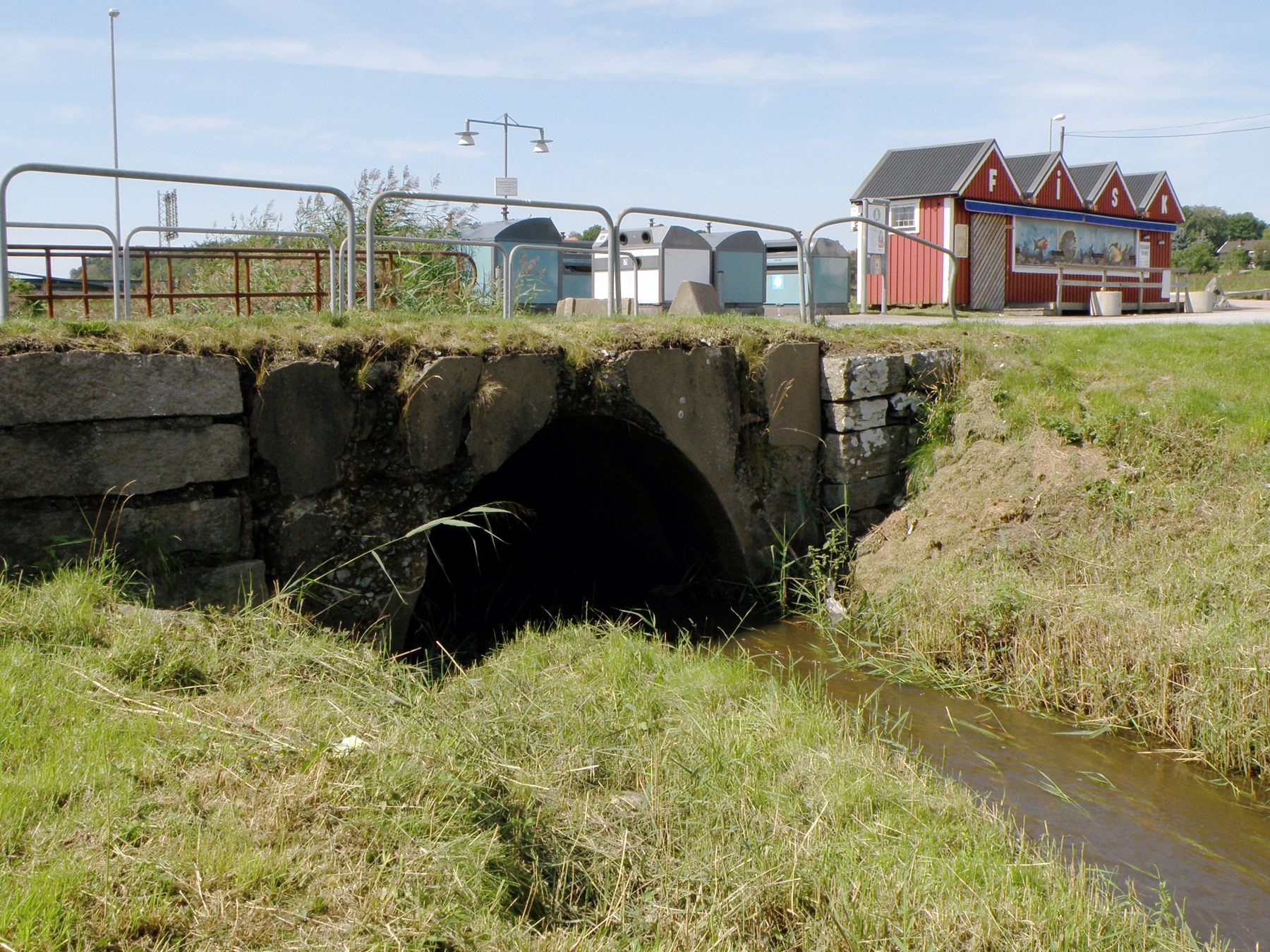 The bridge at Skra bro, Björlanda, Göteborg, Sweden